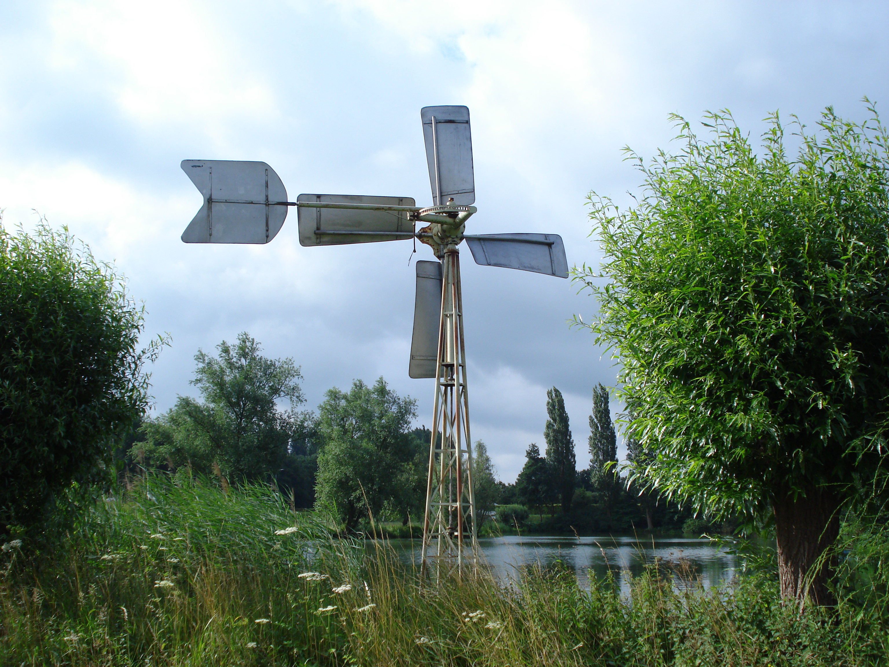 Grave, little water-pumping windmill